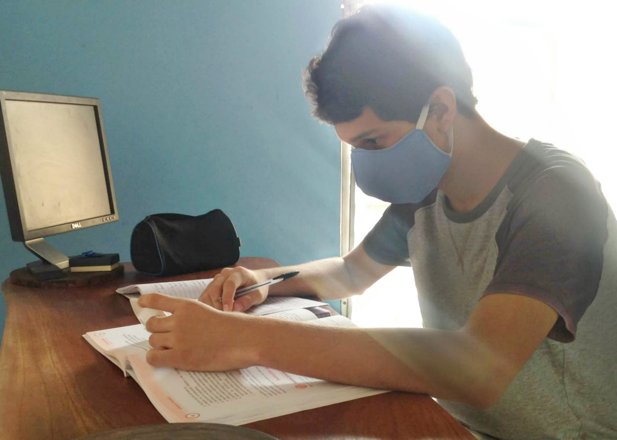 A Honduran student making use of virtual classes in coronavirus pandemic in Honduras.